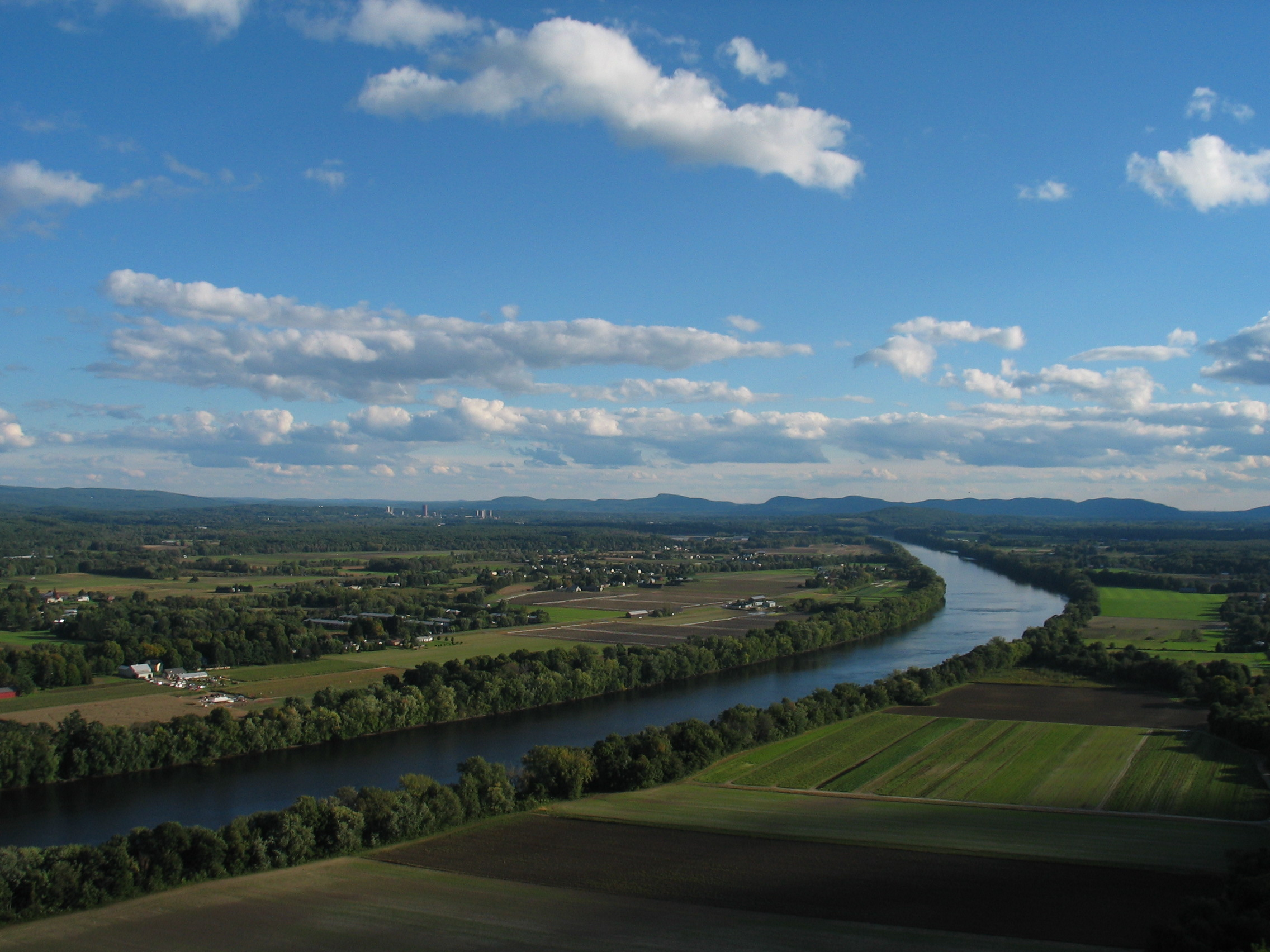 The Connecticut River and Pioneer Valley of Massachusetts. Looking south from Mt. Sugarloaf in Deerfield, toward the towns of Sunderland, Amherst and Whately. The buildings of the University of Massachusetts Amherst can be seen in the distance to the left, and farther off, the Holyoke range of mountains.